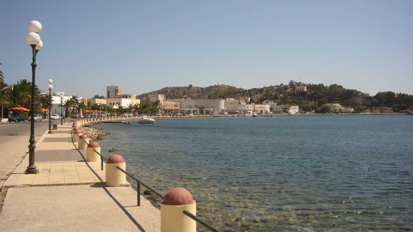 Lakki seafront. Lakki was the former Portolago, the 1930s new model town, built by the Italian authorities. It is one of the best examples of Italian Rationalist architecture.